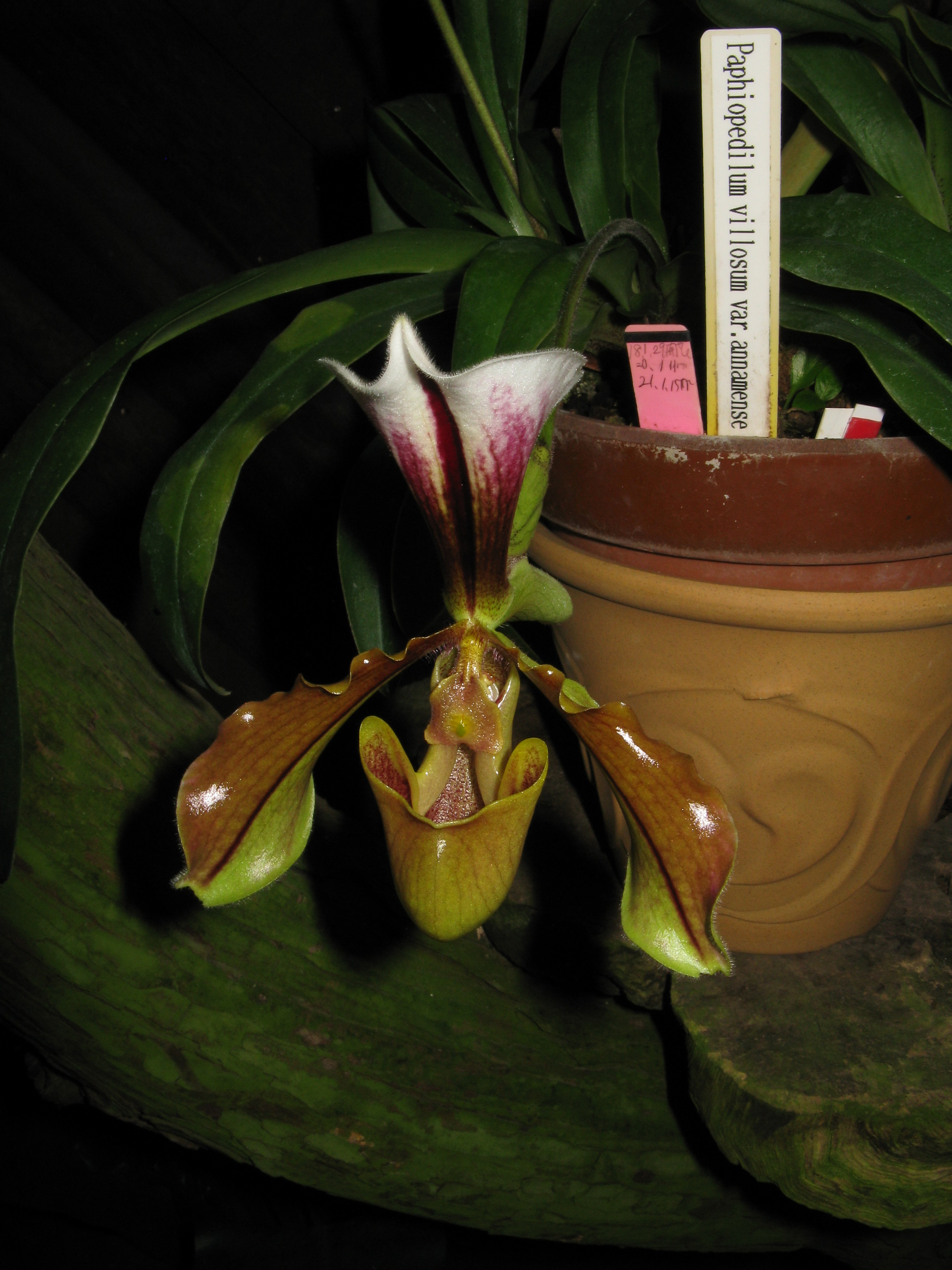 Scientific name Paphiopedilum villosum var. annamense Place:Osaka Prefectural Flower Garden,Osaka,Japan